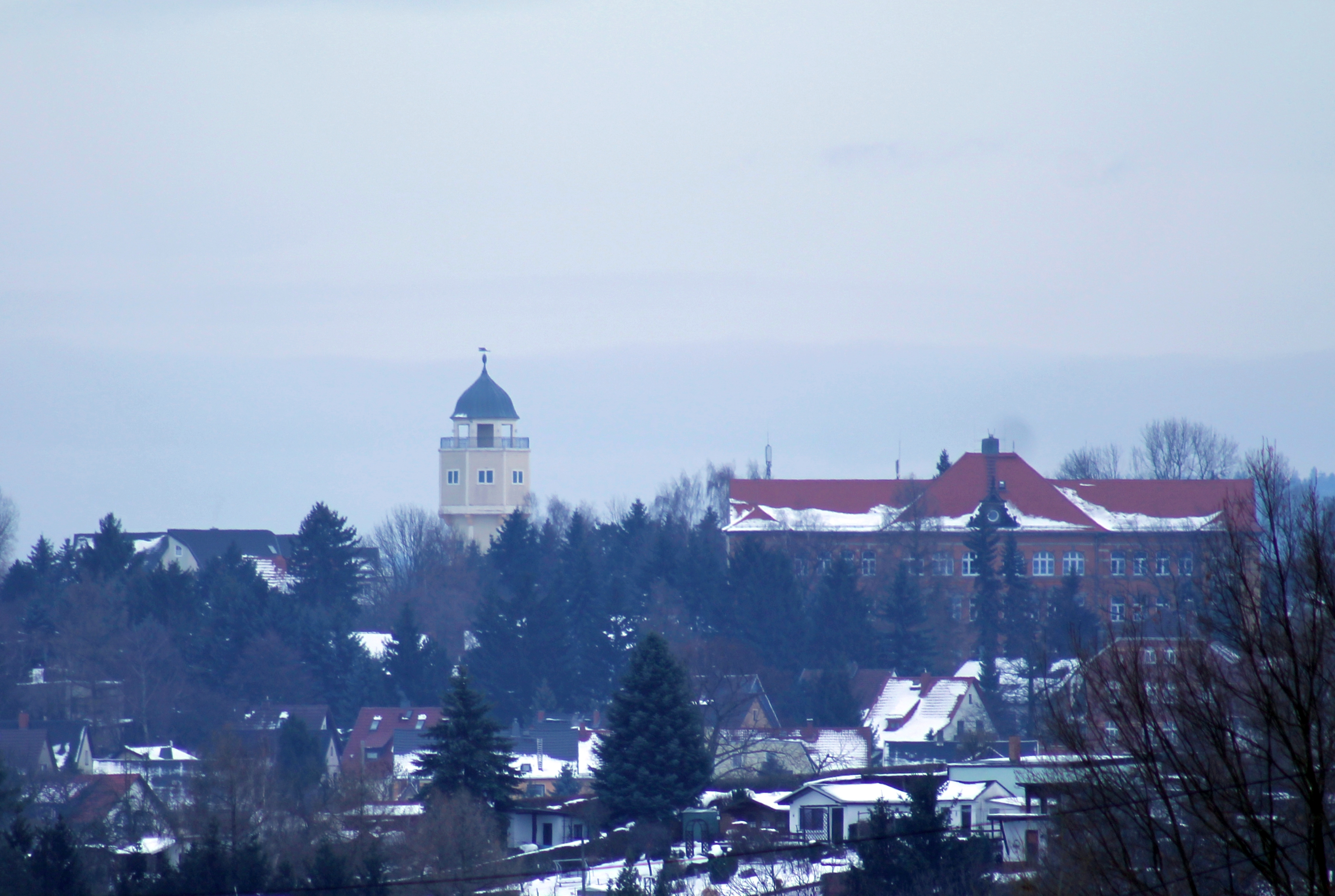 Water tower of Oberplanitz, former "Lessing" school at the right. Oberplanitz, city of Zwickau, Saxony, Germany.